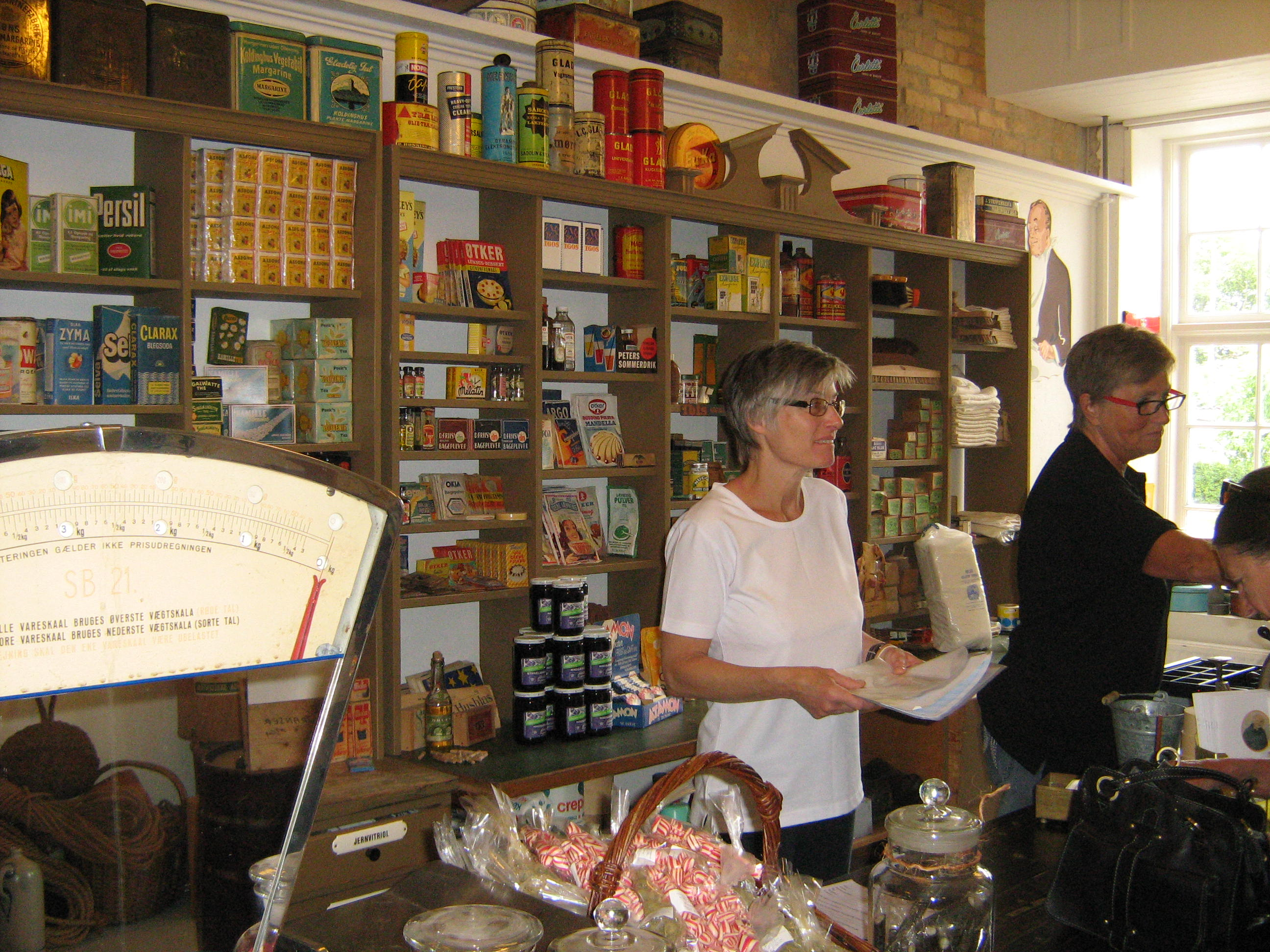 Thorsvang Danmarks Sammlermuseum, Møn: Grocer's shop